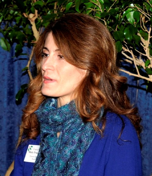 Councillor Fragedakis at the Mayor's 2011 Levee at City Hall. Toronto, Ontario, Canada.